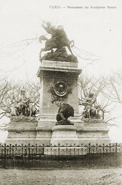 Postcard of 1900, showing the memorial of Barye by Laurent Marqueste located "square Barye", boulevard Henri IV. The bronze group Thésée fighting the centaur Biénor and the bronze lion were melt during WWII by the Germans.